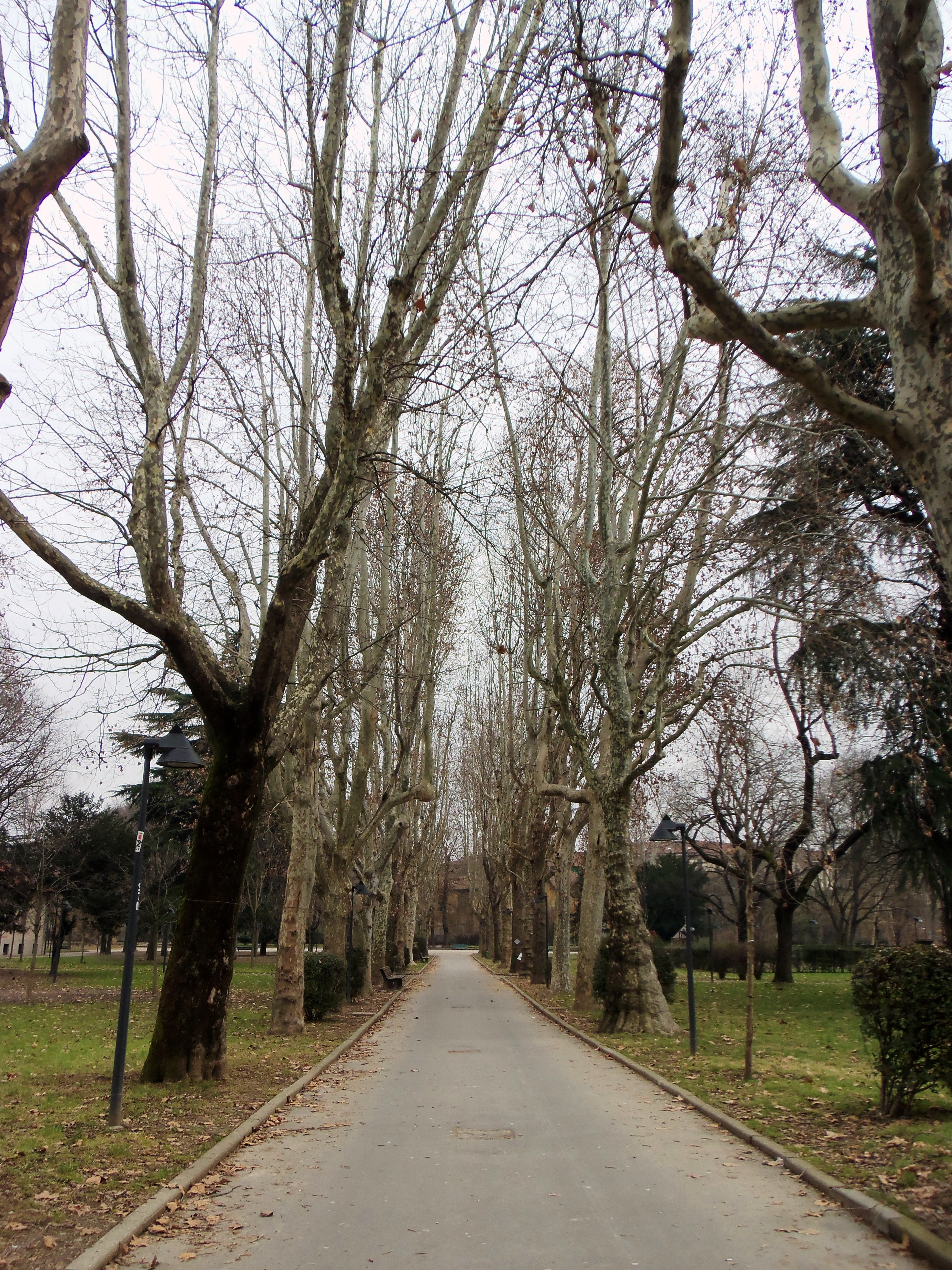 Milano, plane tree rows in Trotter park